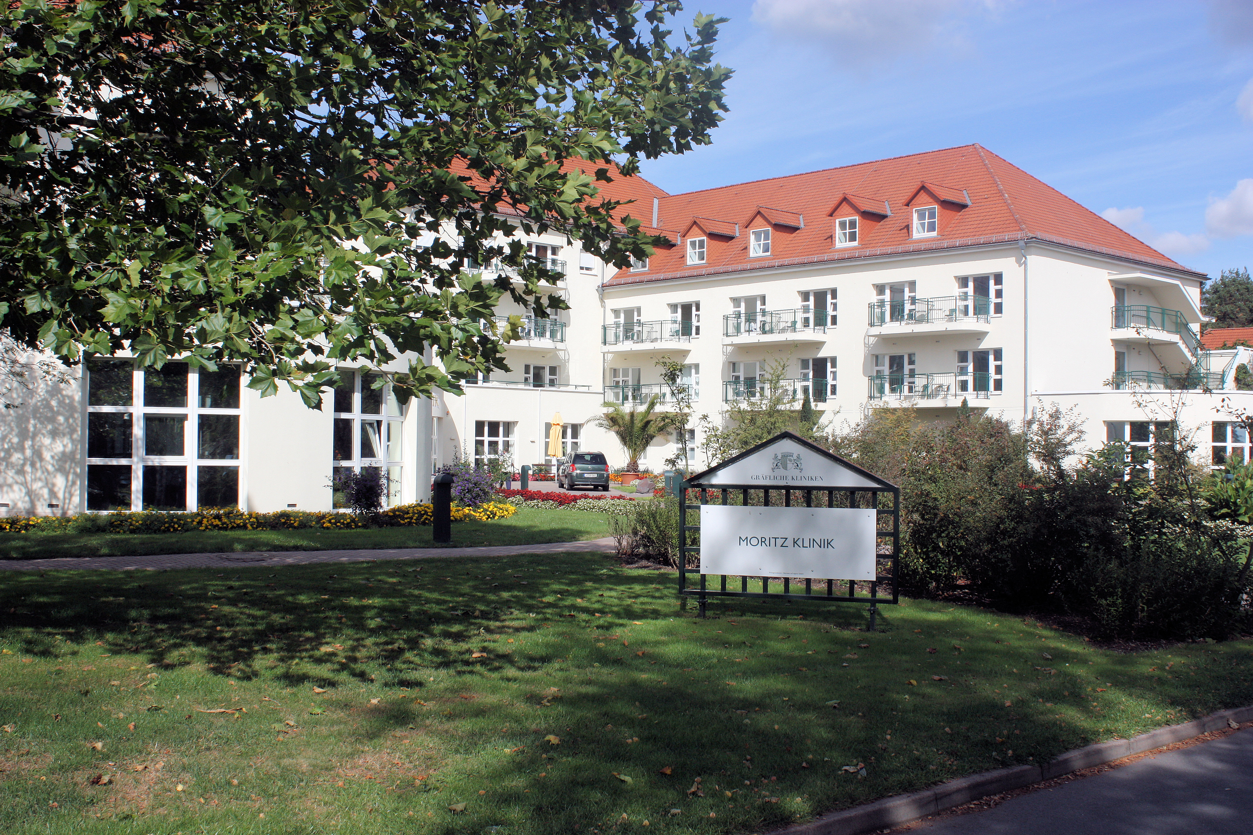 Bad Klosterlausnitz, the Moritz Klinik